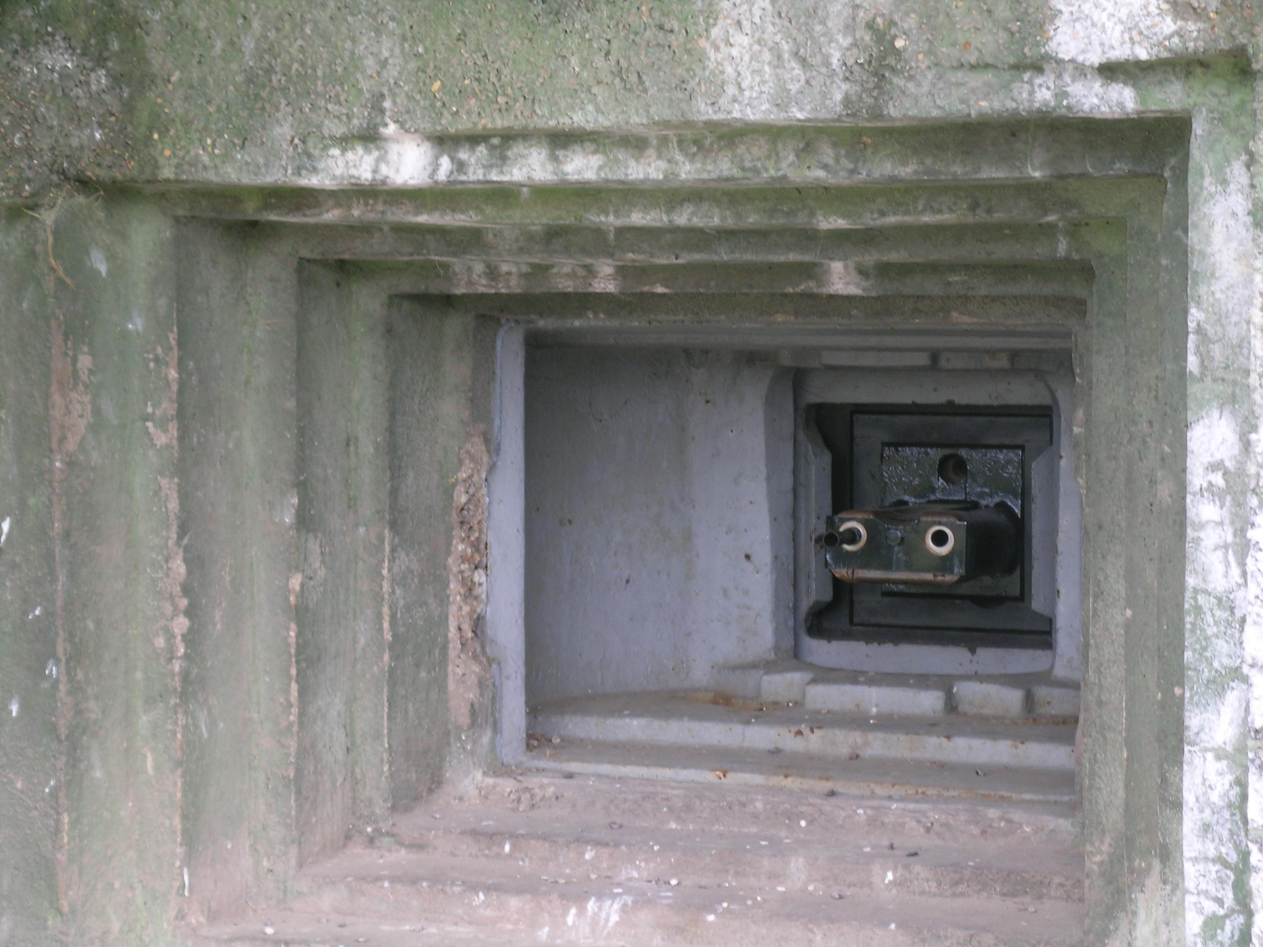 JM, Entry block, Ouvrage de Immerhof, Moselle, France.